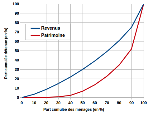 Lorenz Curve for income and wealth in France in 2010. INSEE data.